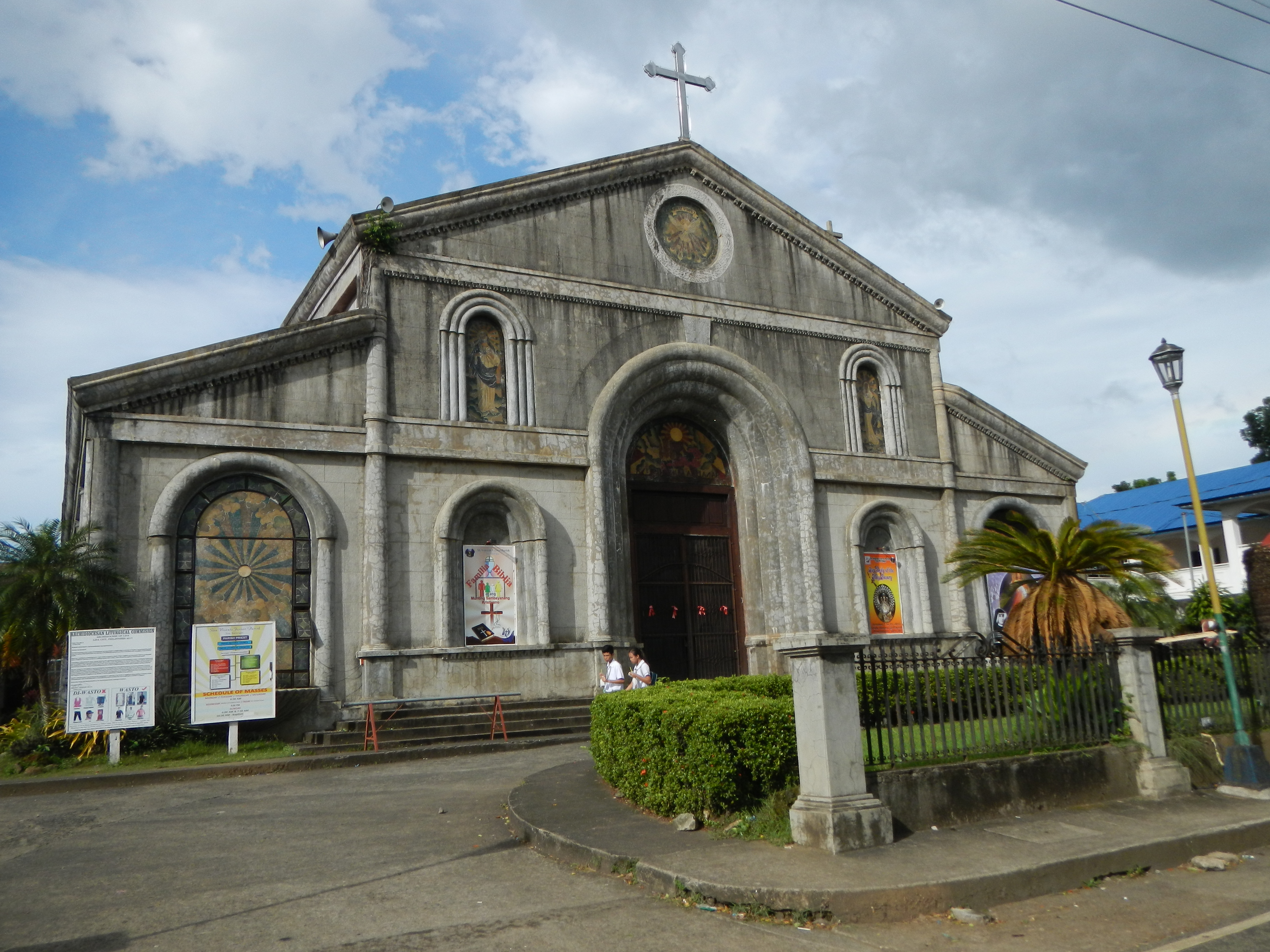 Upload Wizard photo-views of the - "Asenso ng Bayan Sigurado" waiting shade, Association of Barangay Captains and Sangguniang Kabataan building, Welcome Arch of the Tuy Municipality Park, the Town products from sugarcane among others in the display center and the - Saint Vincent Ferrer Parish Church of Tuy, Batangas, Vicariate I: Vicariate of Saint Francis Xavier, [1] belongs to the Roman Catholic Archbishop of Lipa[2] [3] Roman Catholic Archdiocese of Lipa - Tuy, Batangas[4] (a third class municipality in the Province of Batangas, Philippines; politically subdivided into 22 barangays; population of 40,246 people in 8,925 households.) - its official and logo [5], the - Tuy Municipal Hall Complex offices, Coordinates: 14°1'7"N 120°43'48"E, including the Sangguniang Bayan Session Hall and Offices, Town Proper,Town Plaza, Covered Basketball Court, Gomez st. cor. Rizal st., Barangay Luna Hall, Municipal Engineer's Office, Tuy Food Plaza, Tuy Public Market, Plaza, Park, Centro, downtown, Town Proper, TMVCMPC, Police Station, Tuy Vocational School, among others - Our Lady of Peace Academy Coordinates: 14°1'12"N 120°43'50"E [6]).